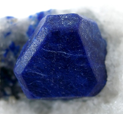 Lazurite Locality: Sar-e-Sang District, Koksha Valley (Kokscha; Kokcha), Badakhshan (Badakshan; Badahsan) Province, Afghanistan (Locality at ) Size: thumbnail, 3.0 x 2.6 x 1.8 cm Lazurite This specimen hosts one of the sharpest single crystals I have ever seen of the species, just razor sharp and equant, not rounded as usual. The crystal, to about 1 cm on edge, sits nestled in a well-trimmed and contrasting marble matrix. This is classic material now, best of species even. But, most are larger crystals on larger rocks and I cannot recall seeing a thumbnail-sized example that so grabbed me, as this one does, for its geometric form and intense, uniform-blue, color.